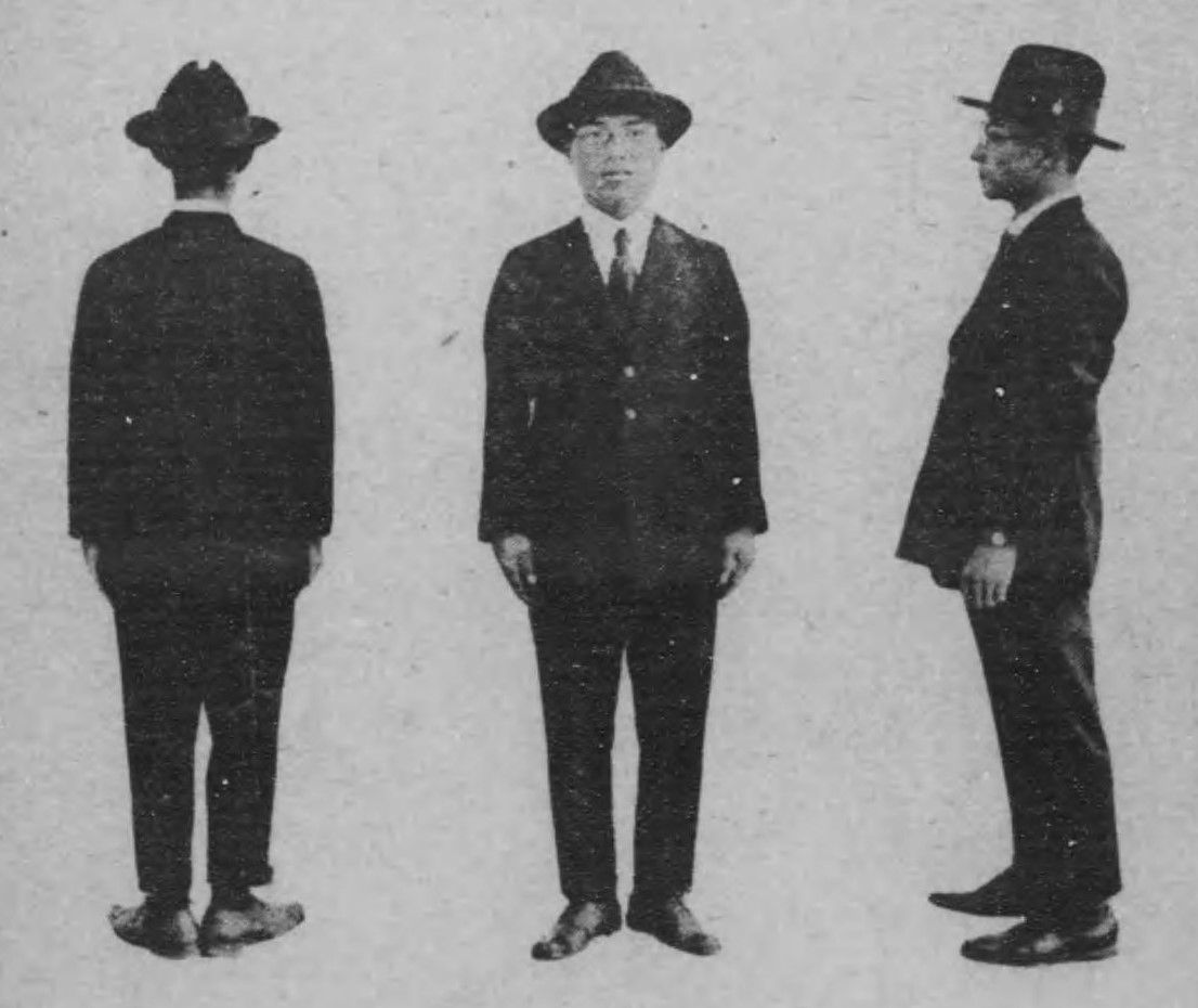 The uniform of Tokyo College of Industrial Arts.